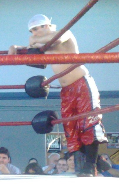 Professional wrestler Jack Evans standing on the ring apron during a tag team match at Pro Wrestling Guerrilla's DDT4 Night 2 show on May 18, 2008.